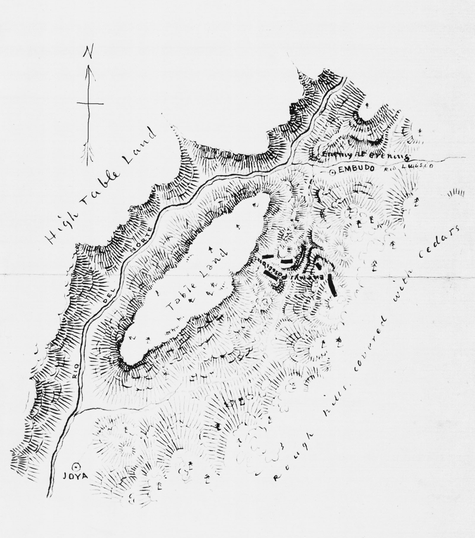 Battle of Embudo Pass, drawn by US Army Corps of Engineers artist (?) JG Bruff in 1847 and obtained from the Library of Congress